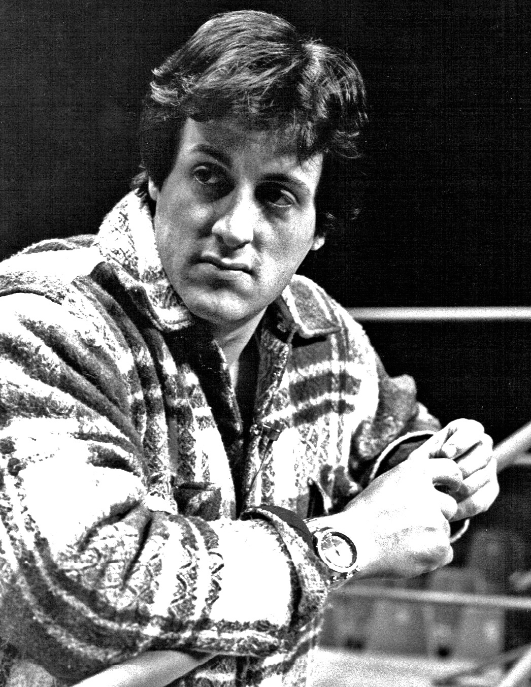 Photo of Sylvester Stallone at the Ken Norton - Duane Bobick boxing match in 1977.